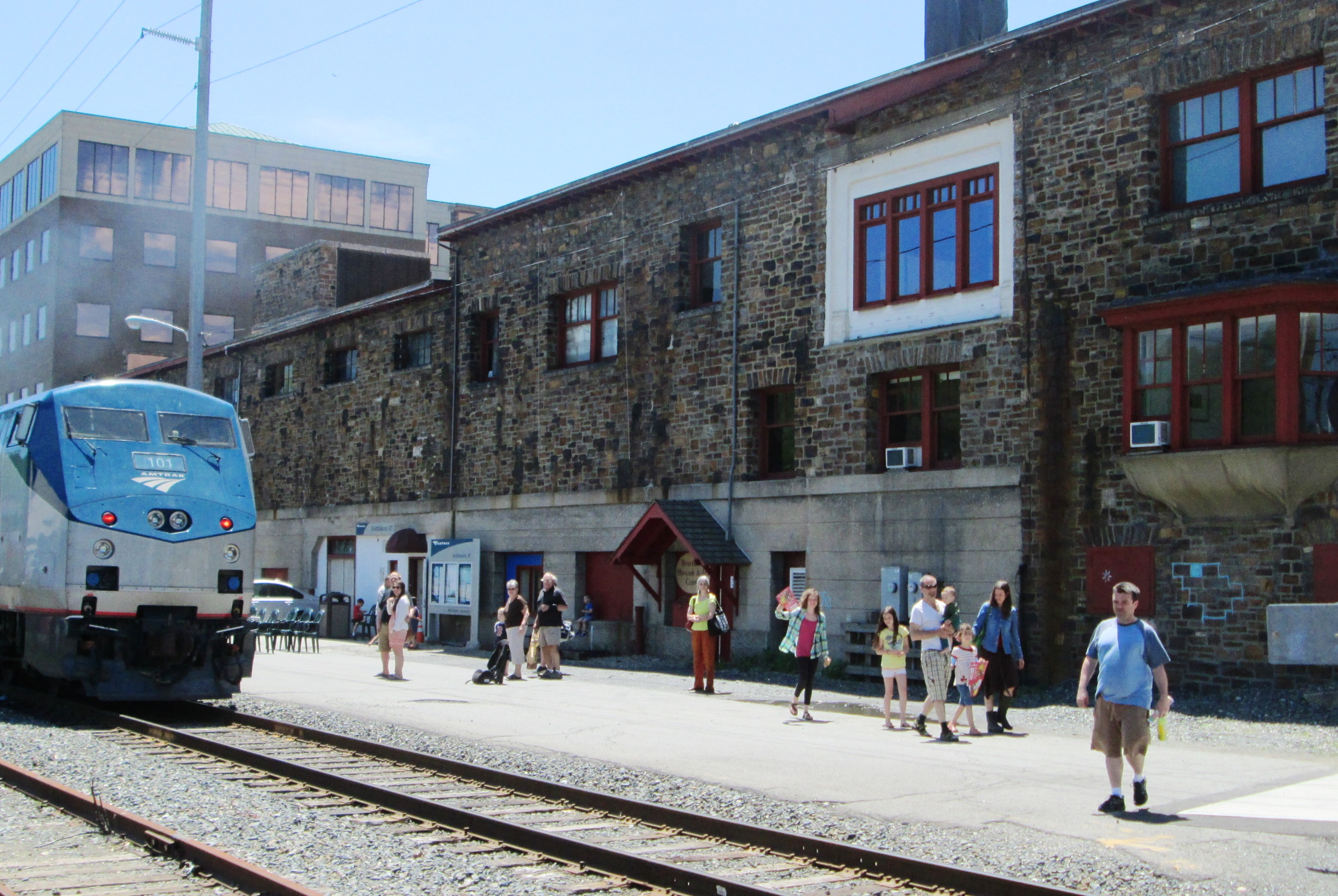 The Vermonter stops at Brattleboro, Vermont in June 2013. The former Union Station building serves as the Brattleboro Museum & Art Center. The white panel on the third story was formerly the entrance to the concourse that crossed the tracks.